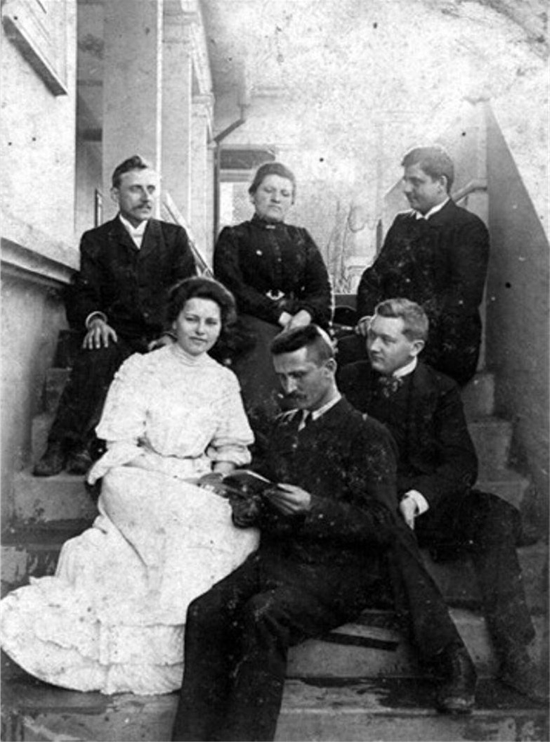 Ensemble of the first Slovak theater performance in Stara Pazova (1903)